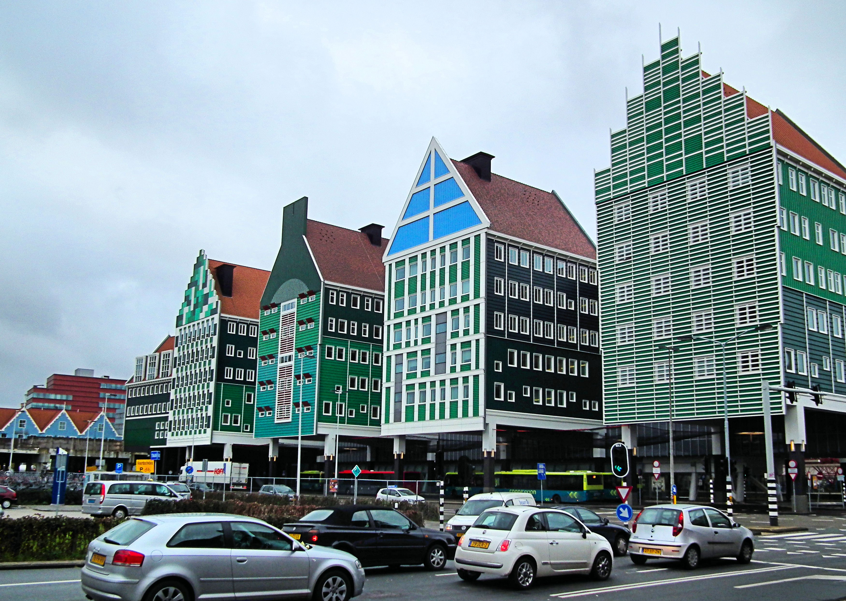 The post modern city centre of the city of Zaandam in the Netherlands is spectacular.